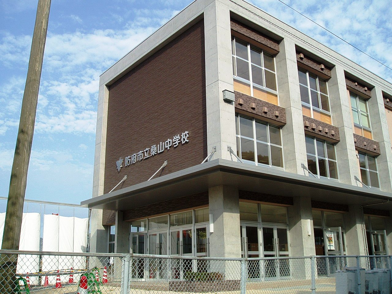 A new building in Hofu City Kuwayama Junior High School located in Hofu, Yamaguchi, Japan.